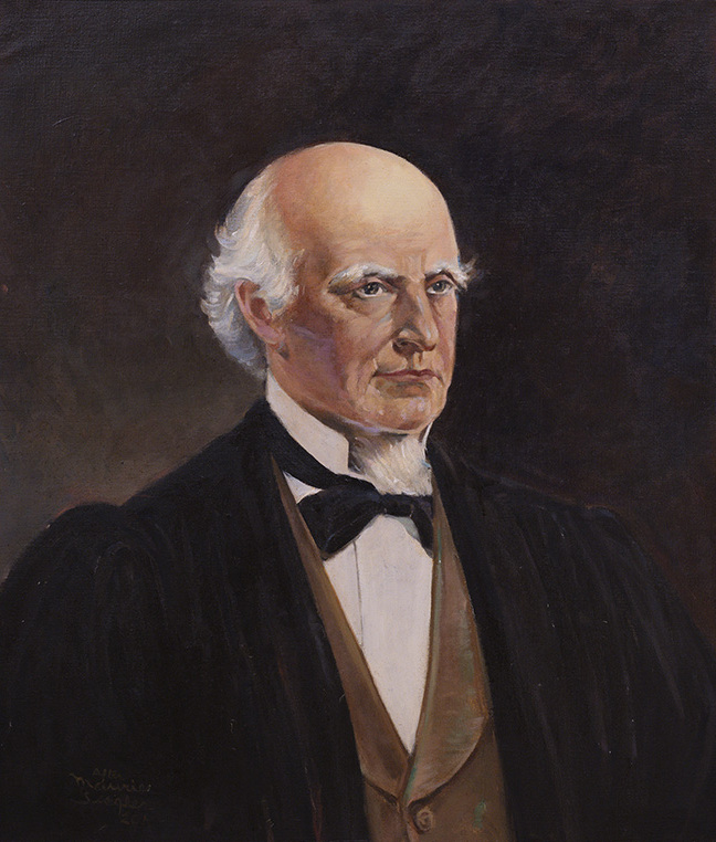 John Archibald Campbell